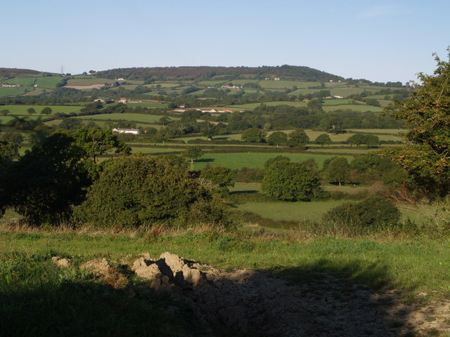 Marshwood Vale The northern fringe of the vale, with Cowdea Farm on the left, seen from Batt's Lane. Beyond are modern bungalows at Deer Park Farm in SY3998, with Lambert's Castle in the distance.